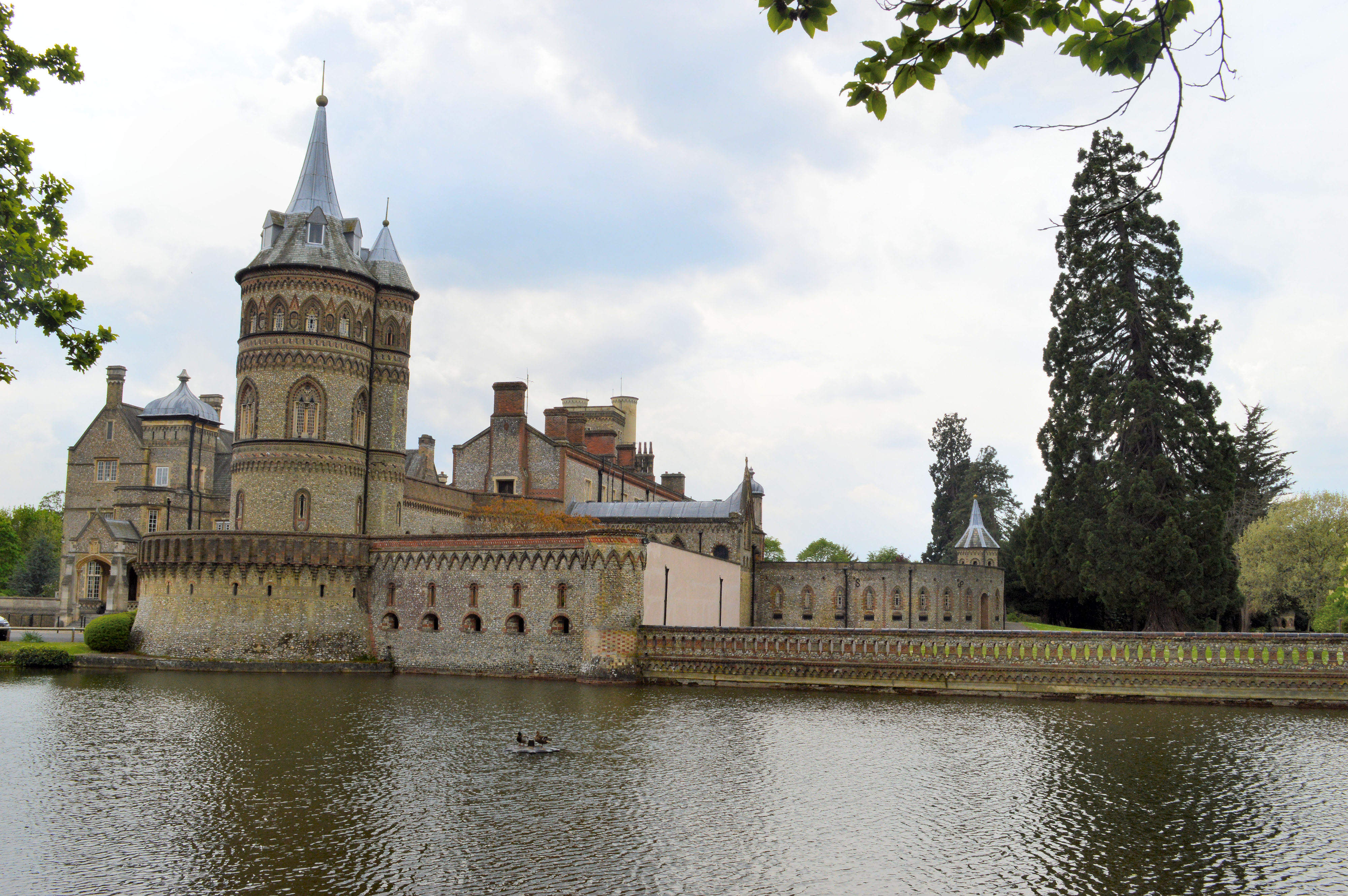 Horsley Towers from the lake